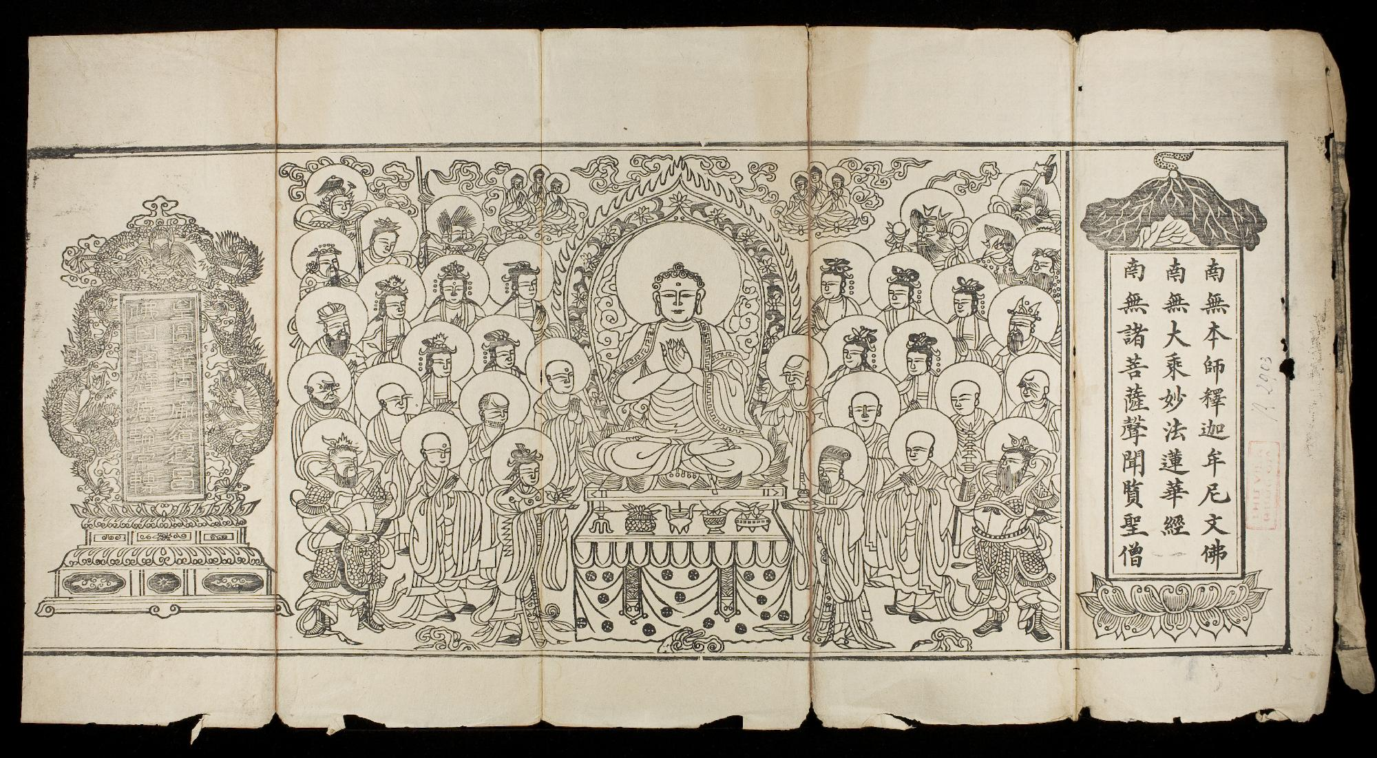 First page of Vietnamese Mahayana Lotus Sūtra (सद्धर्मपुण्डरीक सूत्र), 31.5 cm x 12 cm, ink on papaer, which was written and published 1000+ years ago.